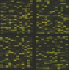 it's a DNA microarray.DNA - Deoxyribonucleic acid